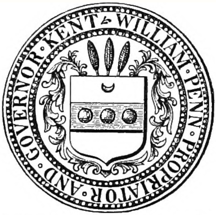 "William Penn Propriator and Governor Kent" Seal of Kent County, Delaware, 1683. From History of Delaware, 1609-1888, Vol. 1, Ch. IX, Delaware Under William Penn, by John Thomas Scharf, Published by L. J. Richards & Co., 1888, Philadelphia